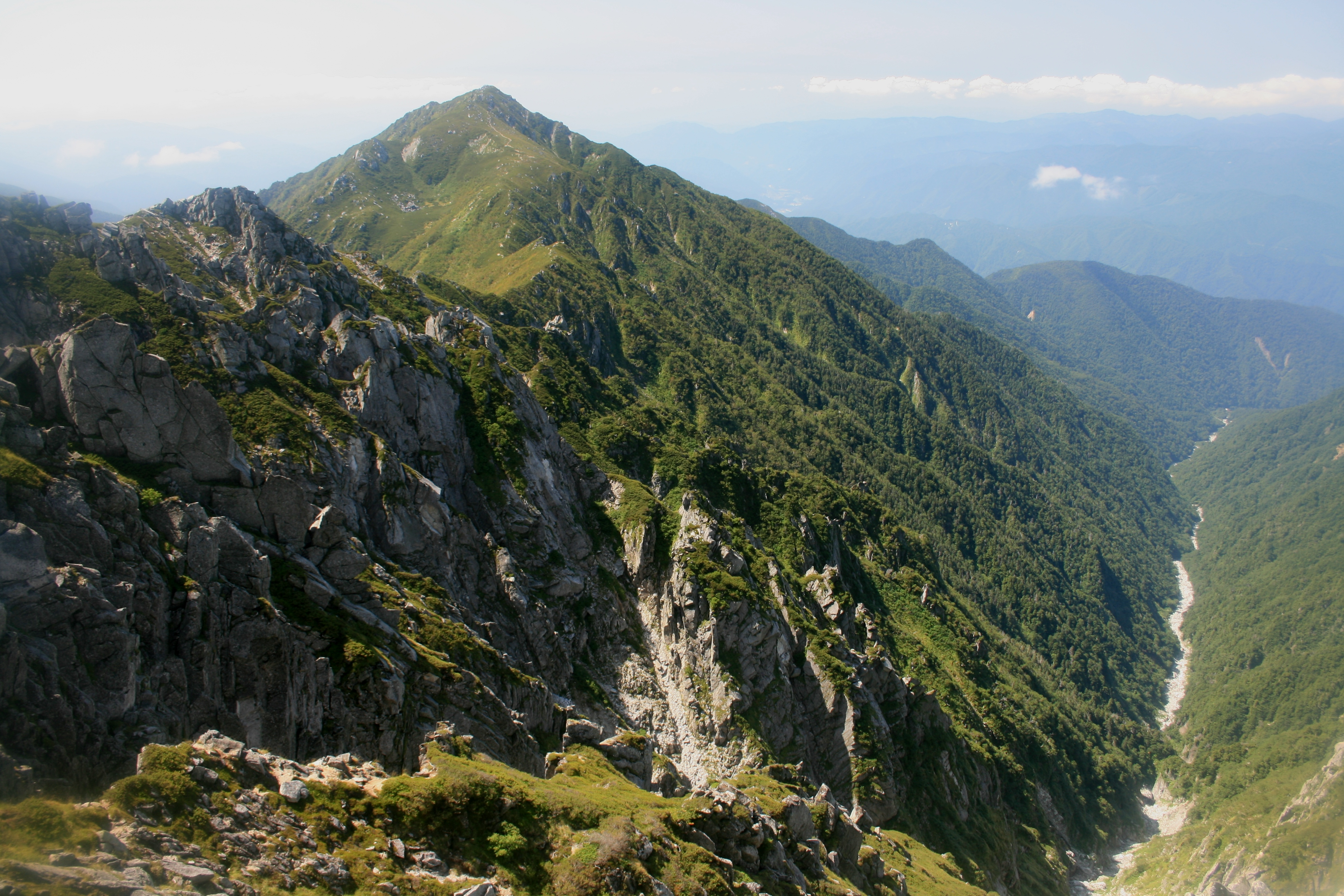 Mount Sannosawa and Name river seen from Mount Hōken, in Kiso Mountains, Nagano prefecture, Japan.